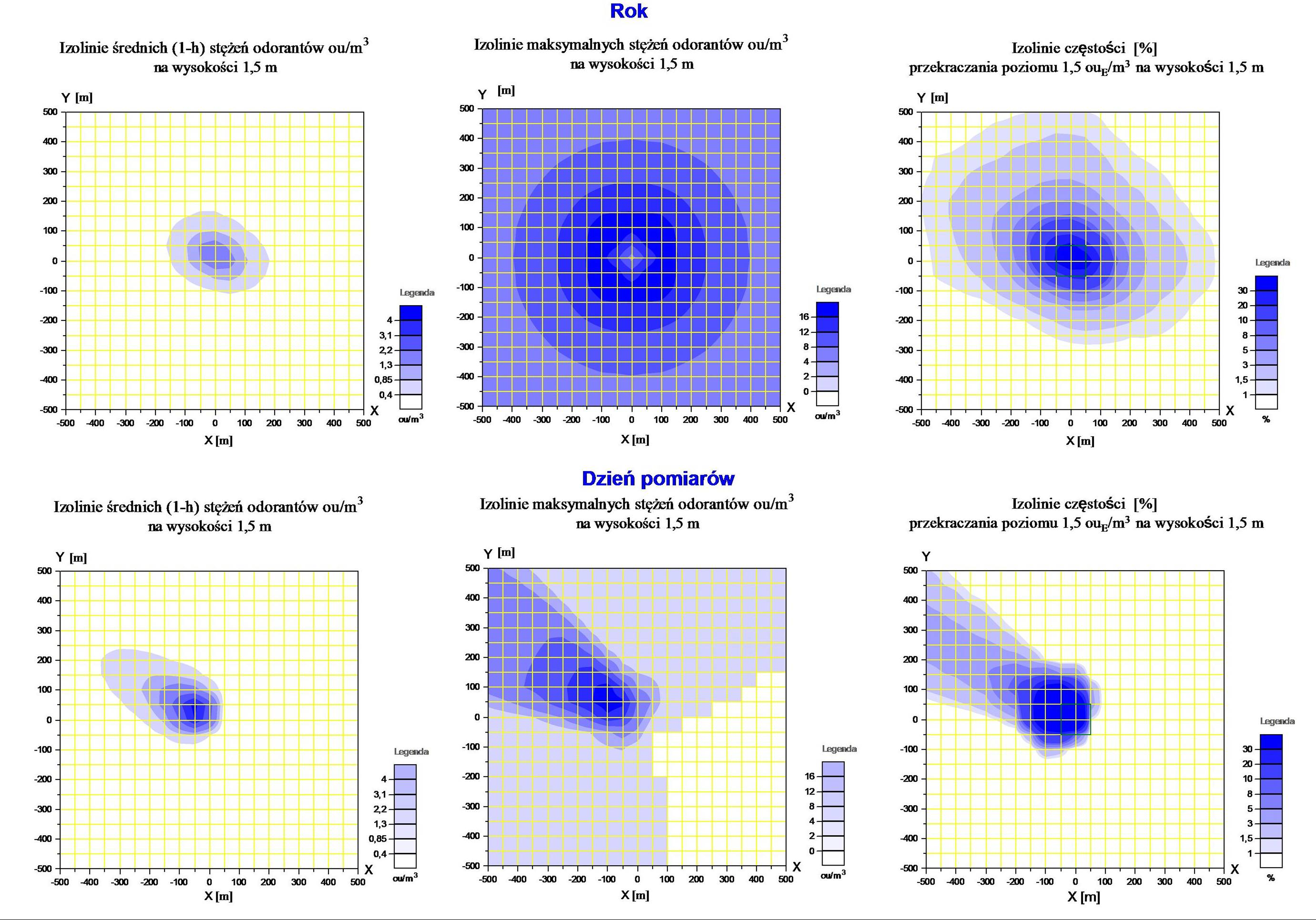 Modeling of Odour Dispersion - results (corrected)